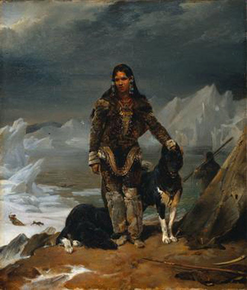 A Woman from the Land of Eskimos